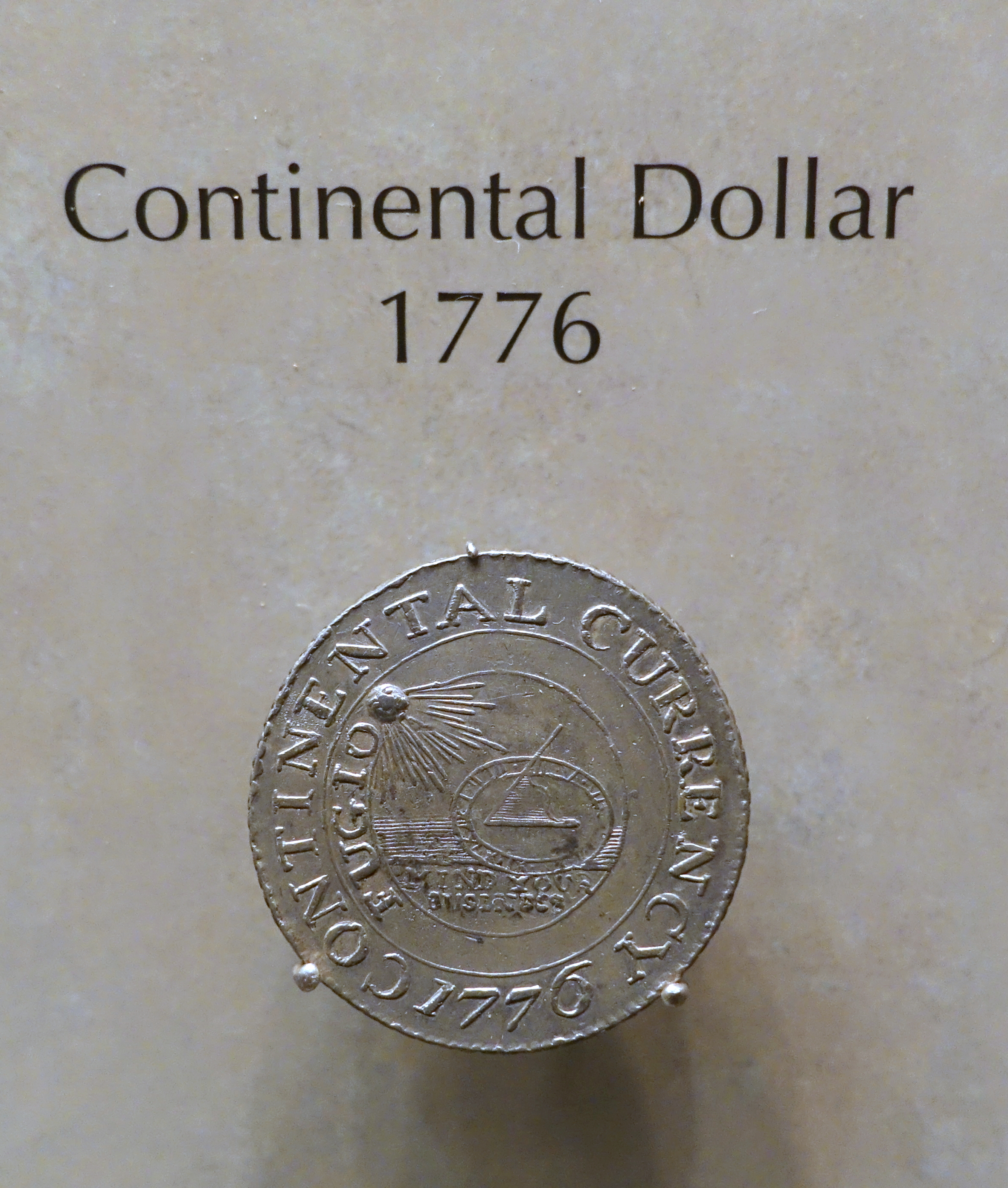 Exhibit in the National Museum of American History, Washington, DC, USA.